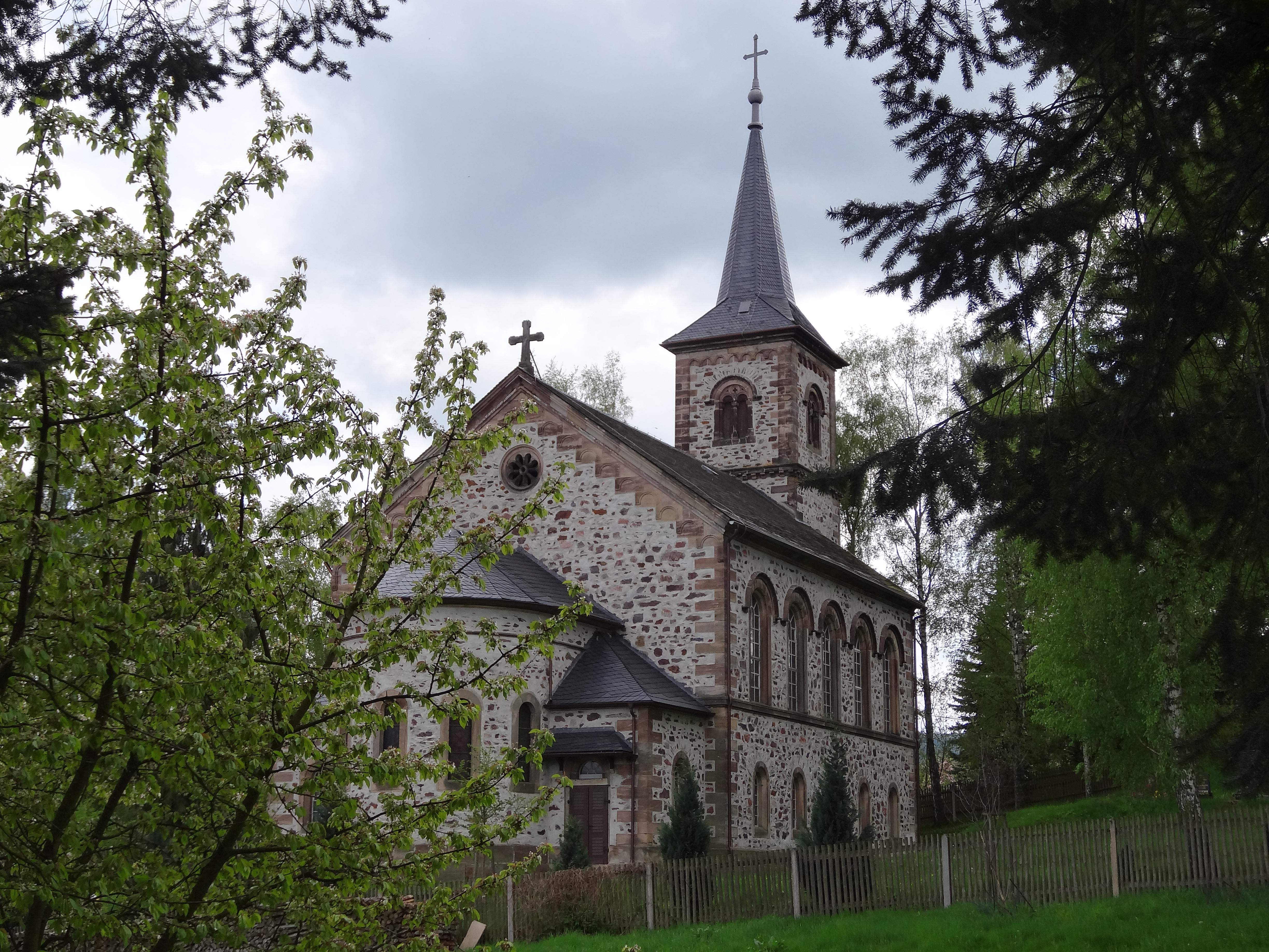 Curch in Pennewitz, Thuringia, Germany